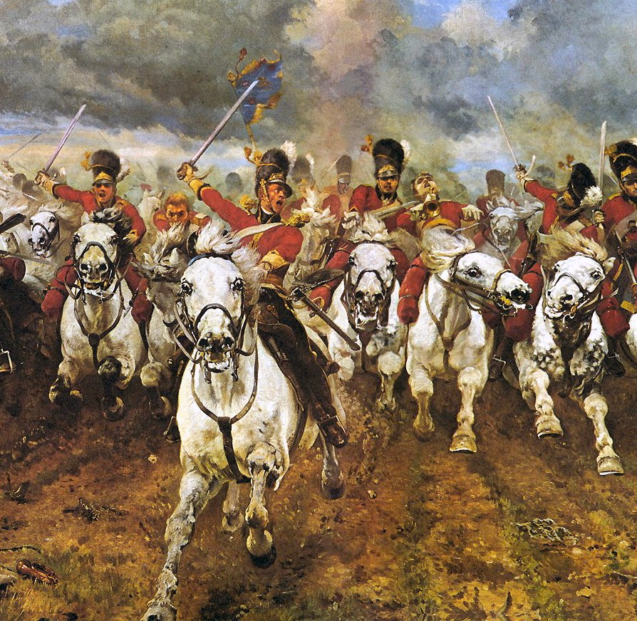 "Scotland Forever! is an 1881 painting by Lady Butler depicting the start of the cavalry charge of the Royal Scots Greys who charged alongside the British heavy cavalry at the Battle of Waterloo in 1815 during the Napoleonic wars. The painting was published in The Perry Magazine, Volume 5, p. 364"